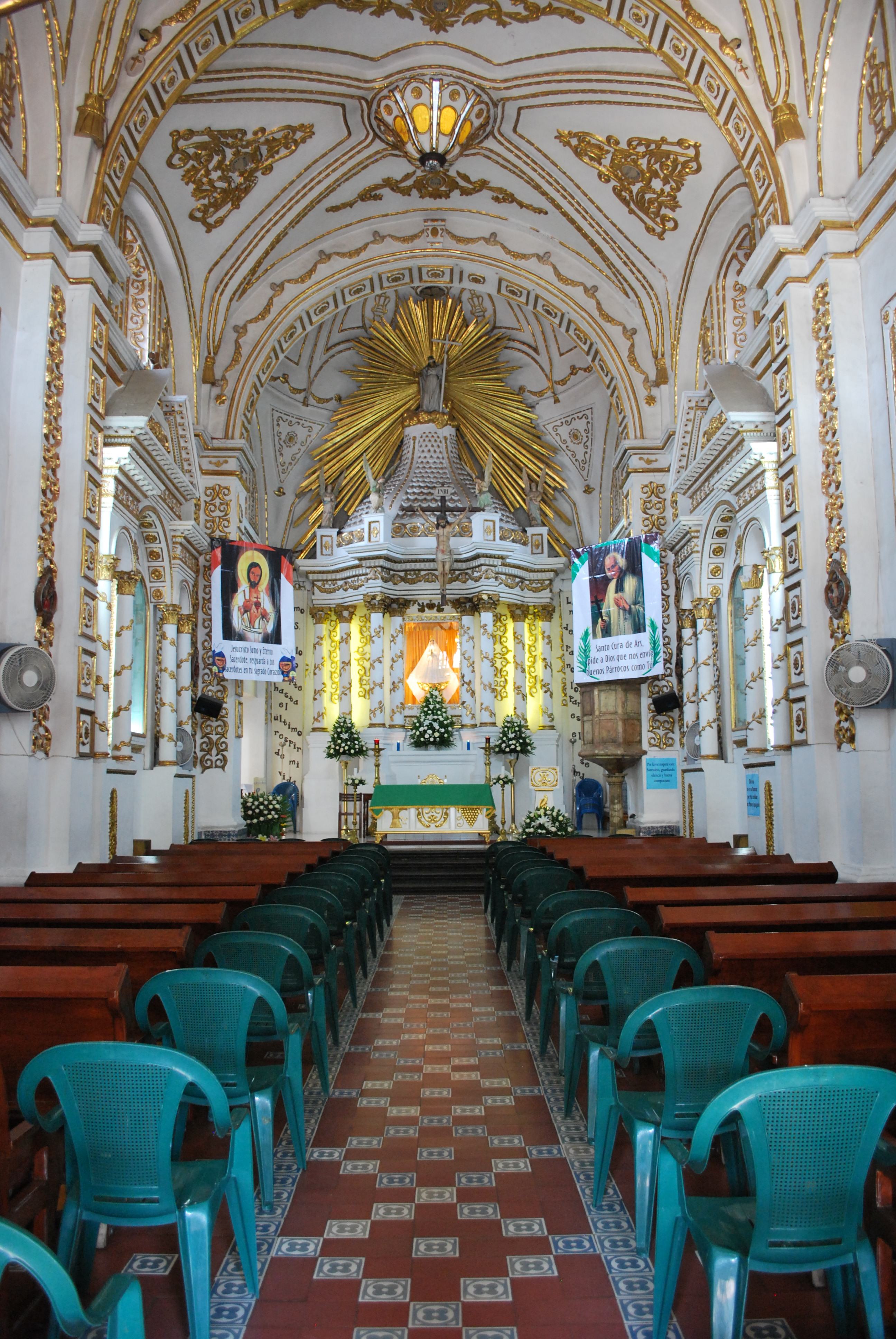 Nave of the Nuestra Señora de los Milagros de Tlaltenango, Cuernavaca, Morelos, Mexico